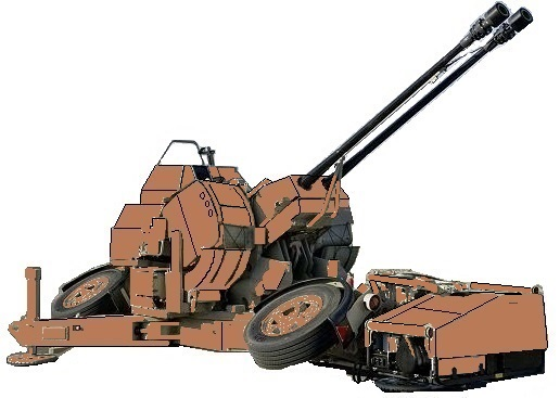 SANDF Oerlikon 35mm cannon